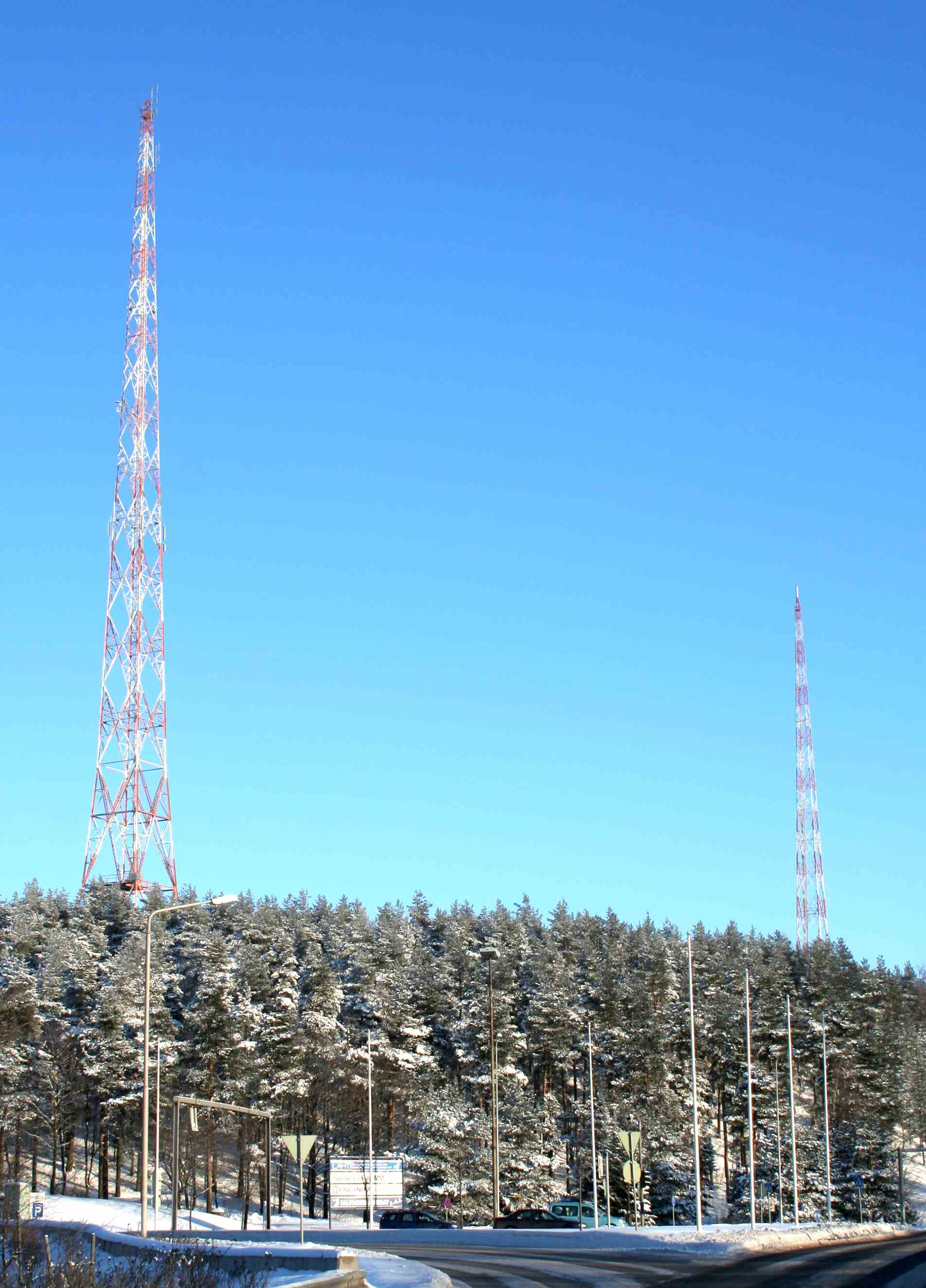 The two radio masts of Lahti longwave transmitter in Radiomäki, Lahti, Finland. The masts are 150 metres high and they were built in 1928.